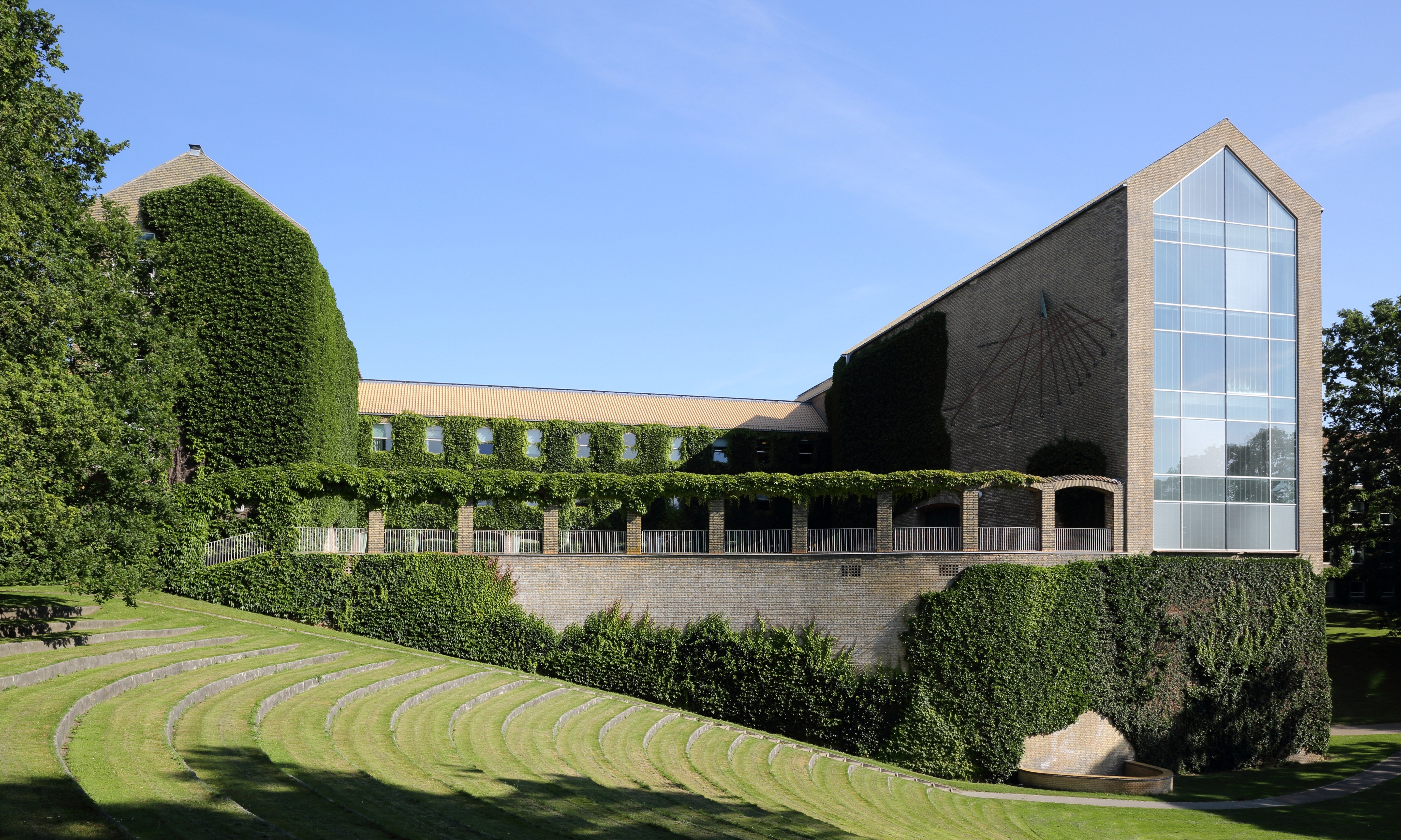 Aarhus University's main building as seen from the park